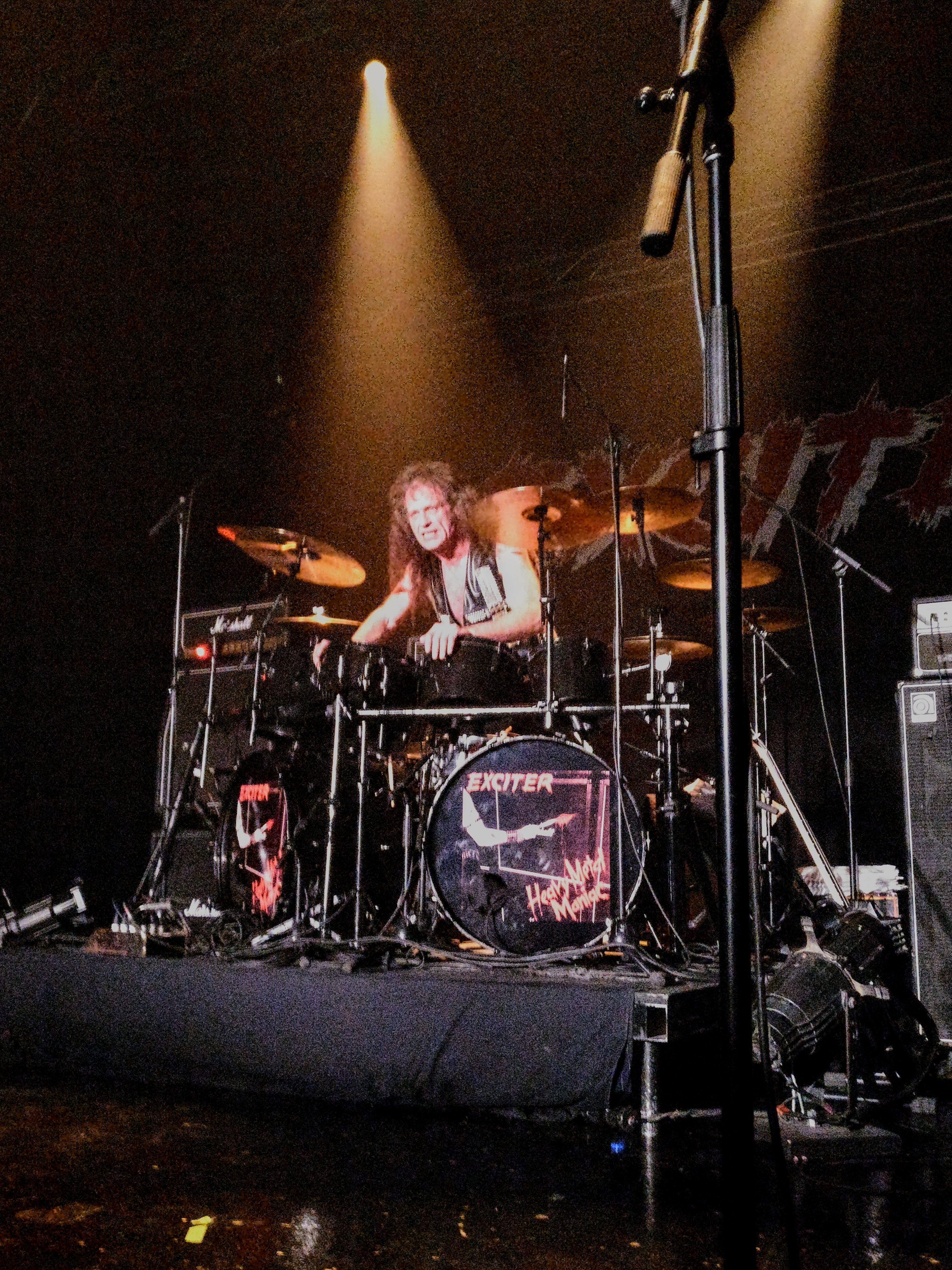 Dan Beehler, vocalist and drummer of Exciter, performing at Le National in Montreal, Quebec, on April 7, 2018.